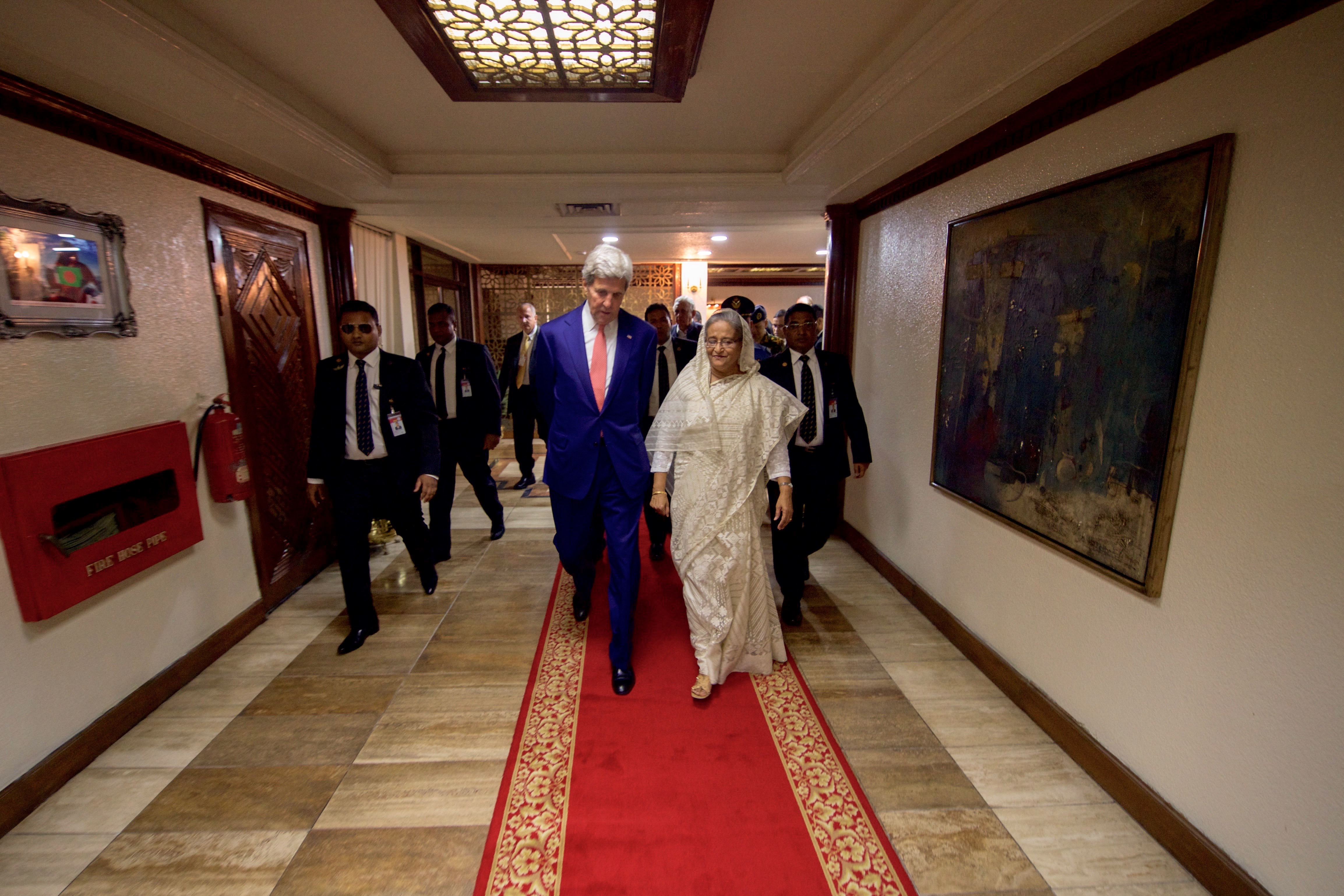 U.S. Secretary of State John Kerry walks with Bangladeshi Prime Minister Sheikh Hasina Wazed at the Prime Minister's Office in Dhaka, Bangladesh, before a bilateral meeting on August 29, 2016. [State Department Photo/ Public Domain]